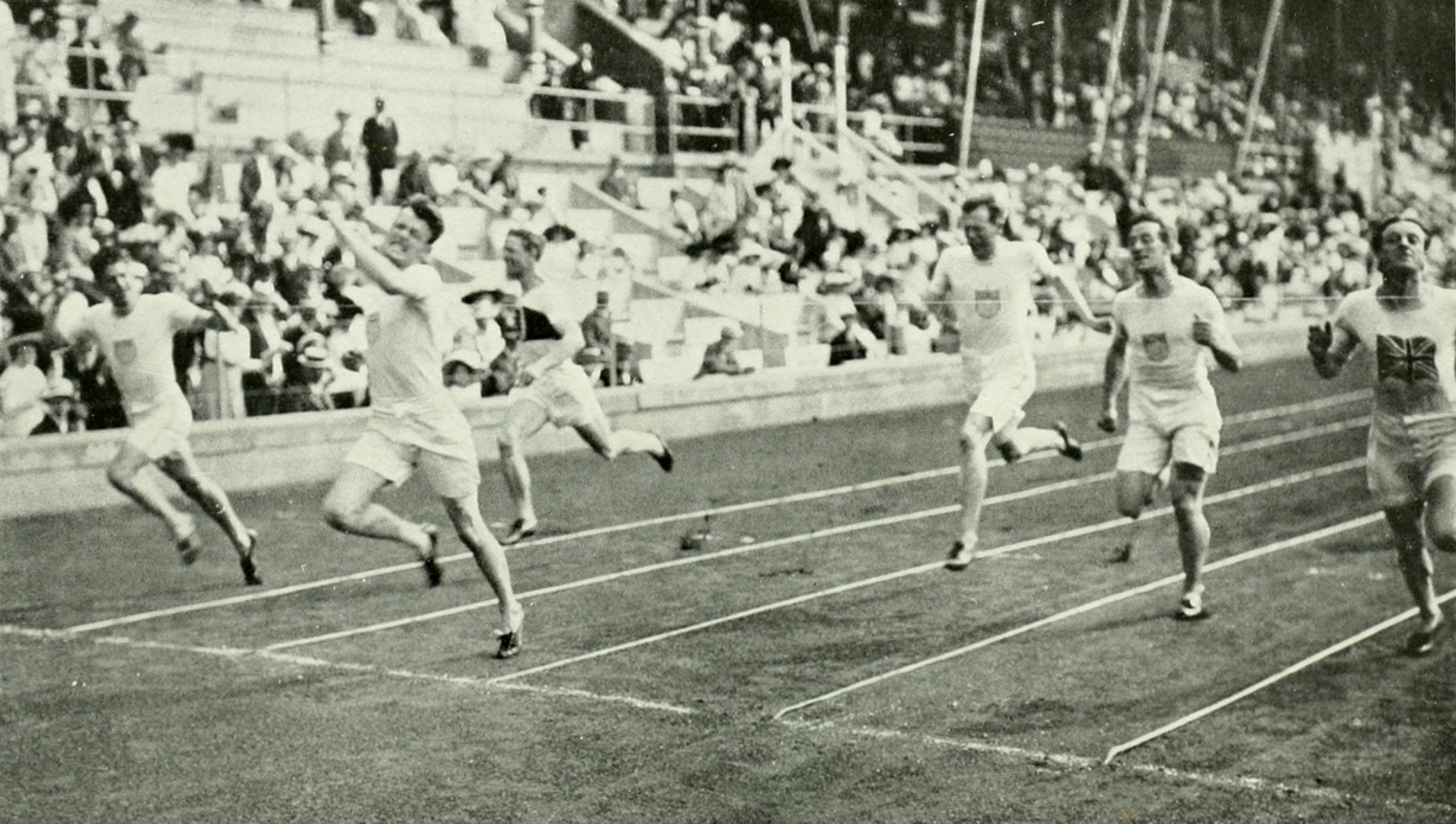 The finish of the men's 200 metre final at the 1912 Summer Olympics. Ralph Craig (USA), Donald Lippincott (USA), Willie Applegarth (GBR), Richard Rau (GER), Charles Reidpath (USA), Donnell Young (USA)